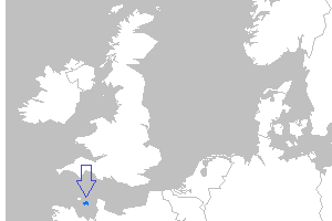 Location map of Jersey within Europe